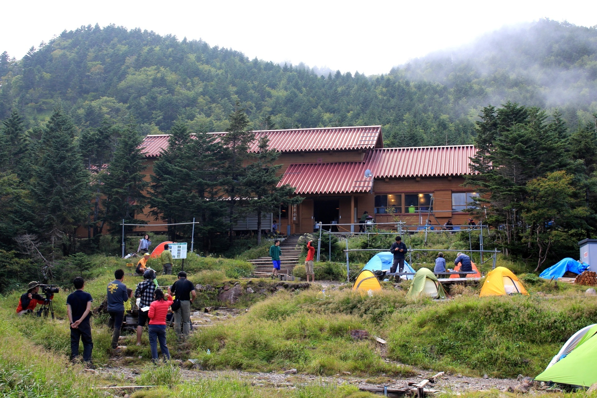 BS-TBS television program Meiho Zekkei Tanboh at Hijiridairagoya in Mount Hijiri, Aoki, Shizuoka, Shiazuoka prefecture, Japan.